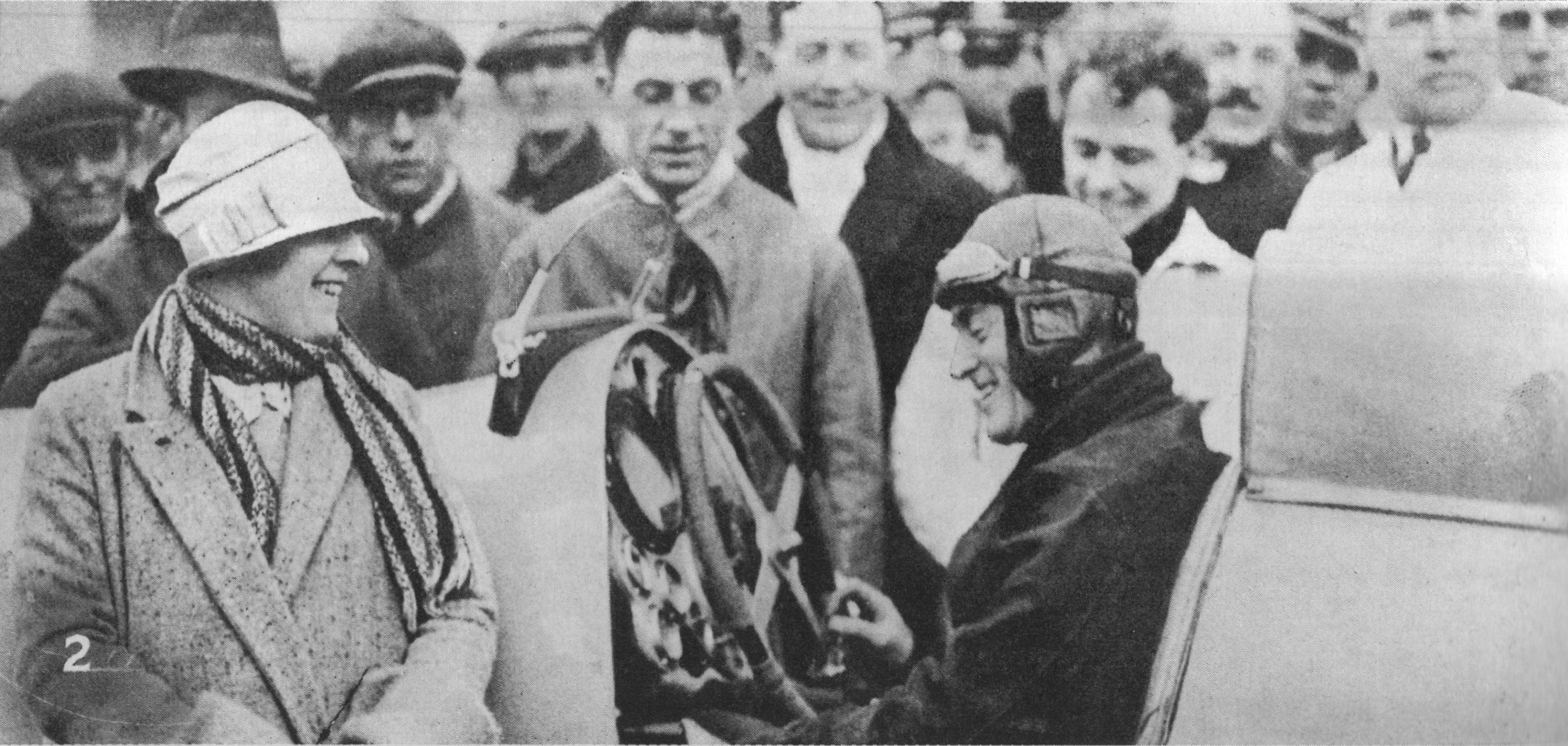 Showing the driving controls to interested spectators Major (now Sir) Malcolm Campbell in his famous "Bluebird" broke the world's Land Speed Record at Pendine Sands. Approximate date of photograph: 1927-01